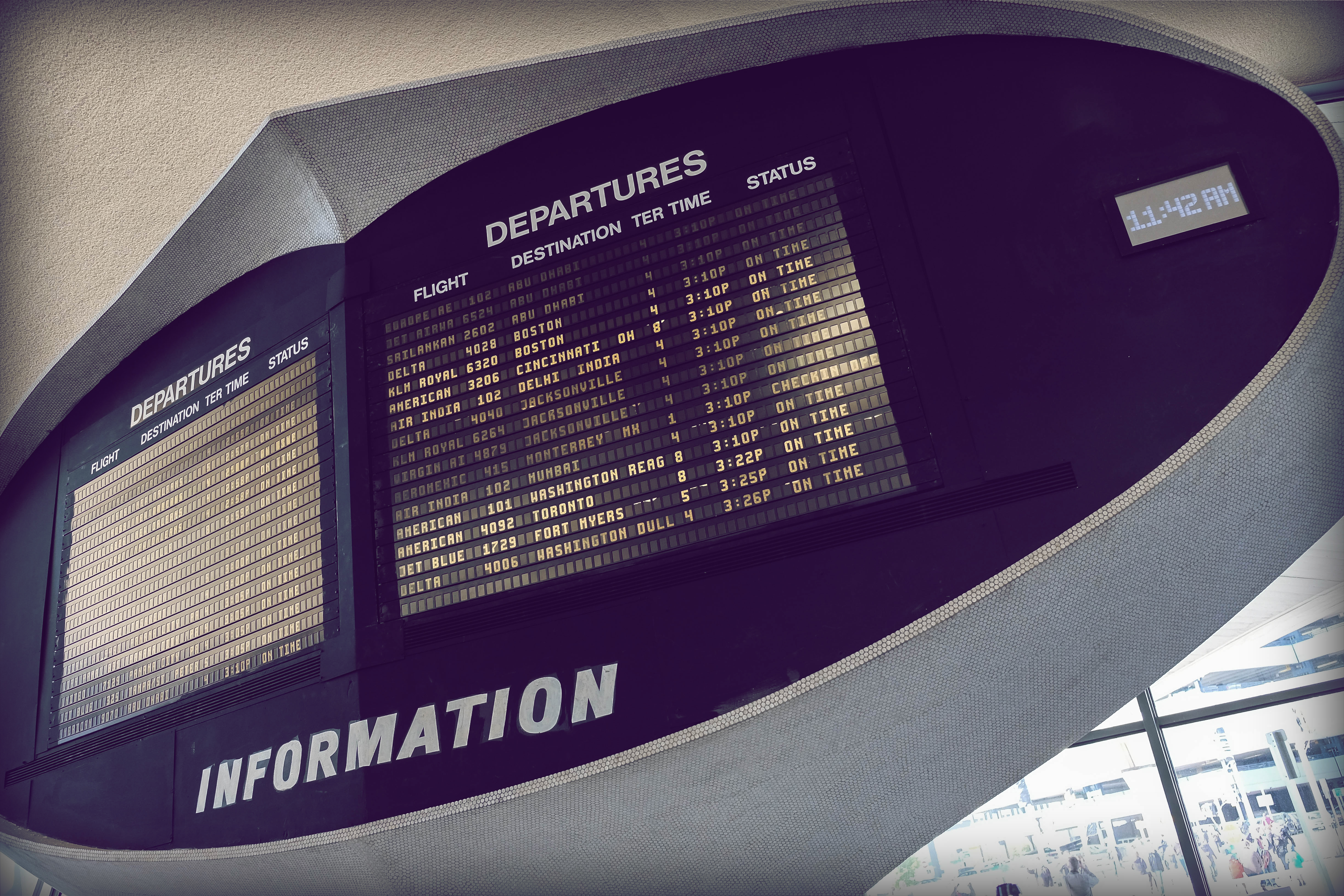 The departures timetable.Site: TWA Terminal